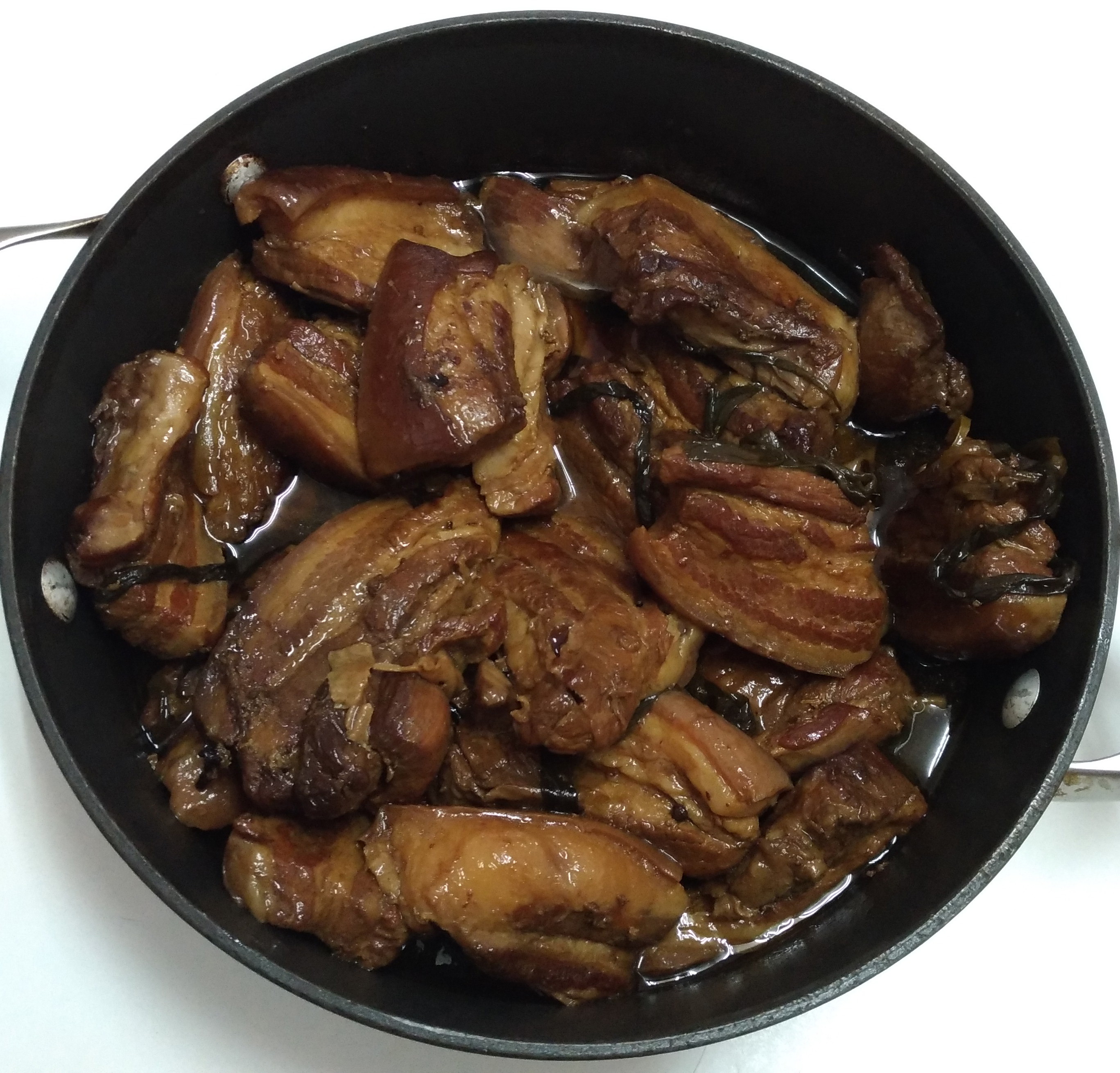 Taiwanese braised pork (khòng-bah)